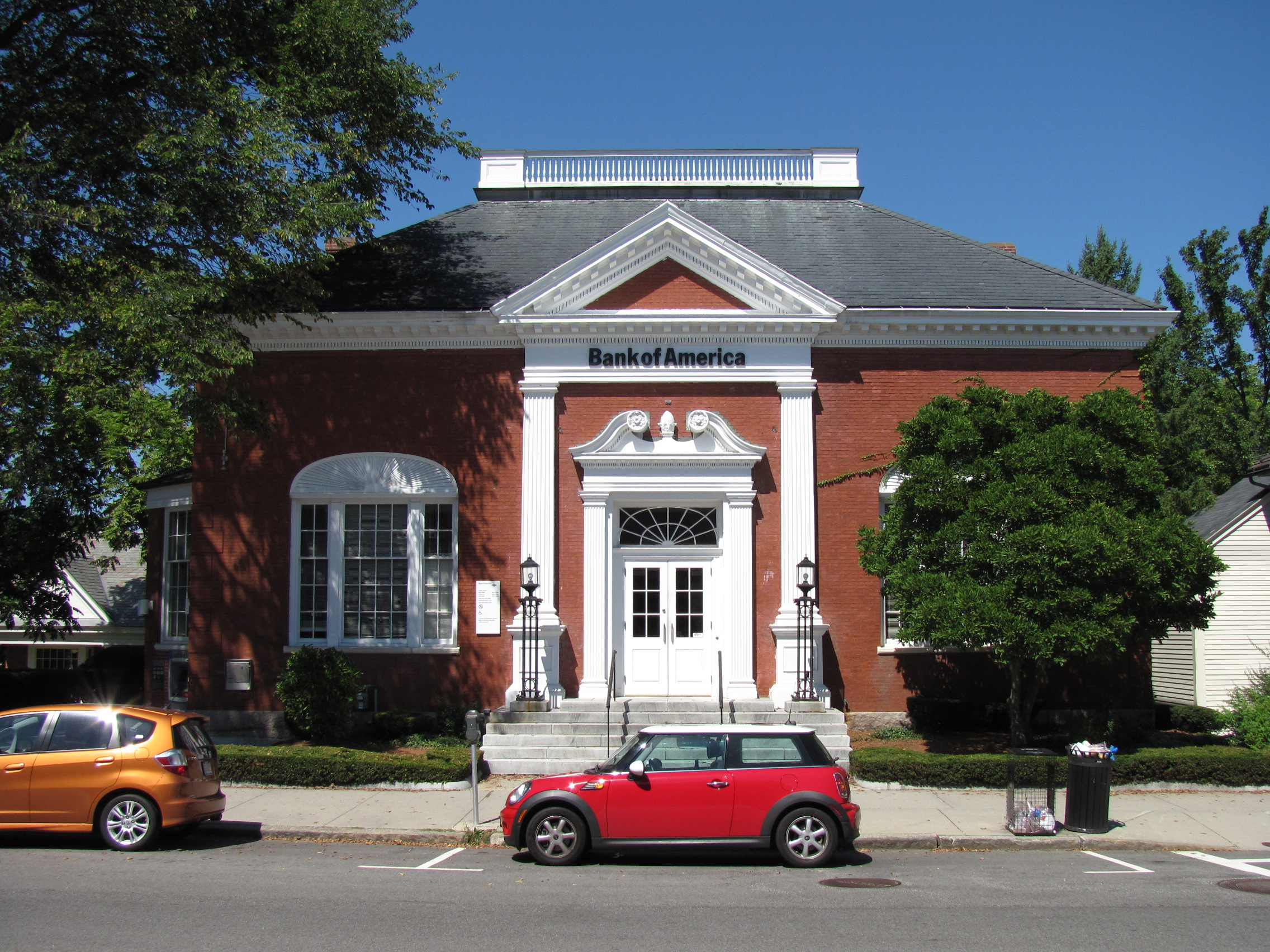 Bank of America Branch, Concord Massachusetts